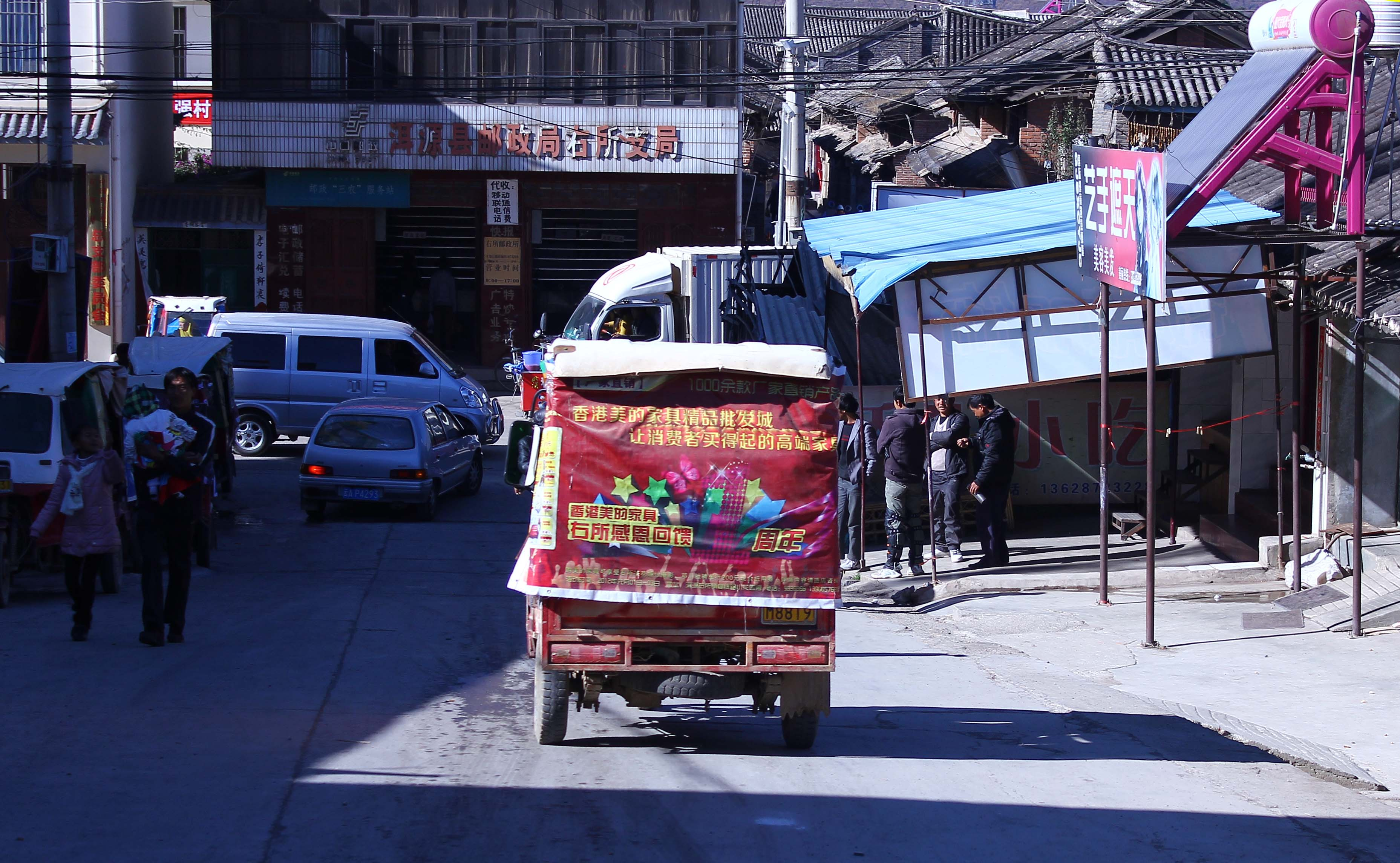 Yousuo Town in Eryuan County, Dali, Yunnan, China.